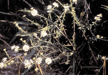 Carter's mustard